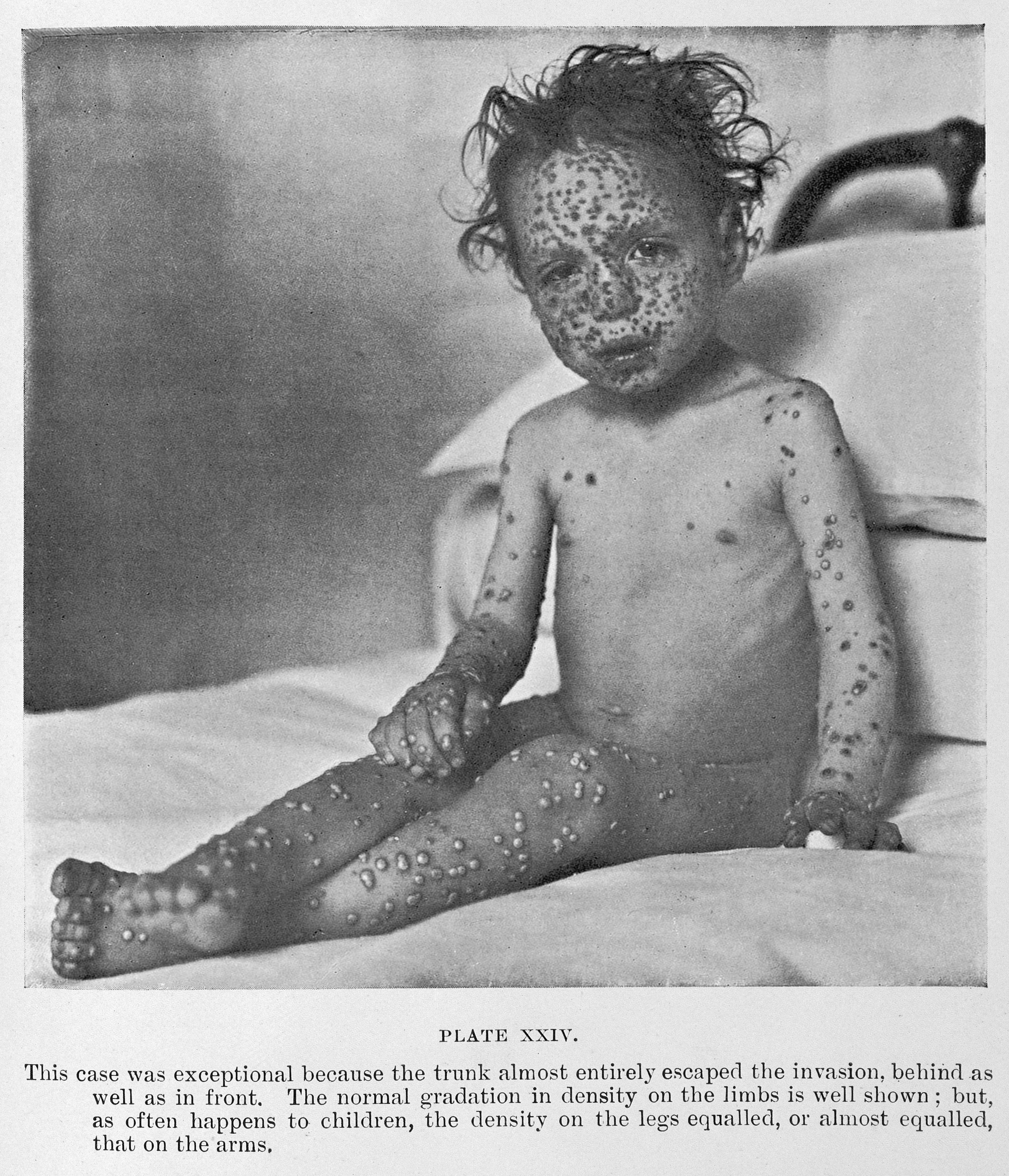 WC585 1908R53d "The Diagnosis of Smallpox", Ricketts, T. F, Casell and Company, 1908 Plate XXIV, Small child with smallpox showing an exceptional case because the trunk almost entirely escaped the invasion of smallpox. Wellcome Images Keywords: wc585 1908r53d; Smallpox; Child